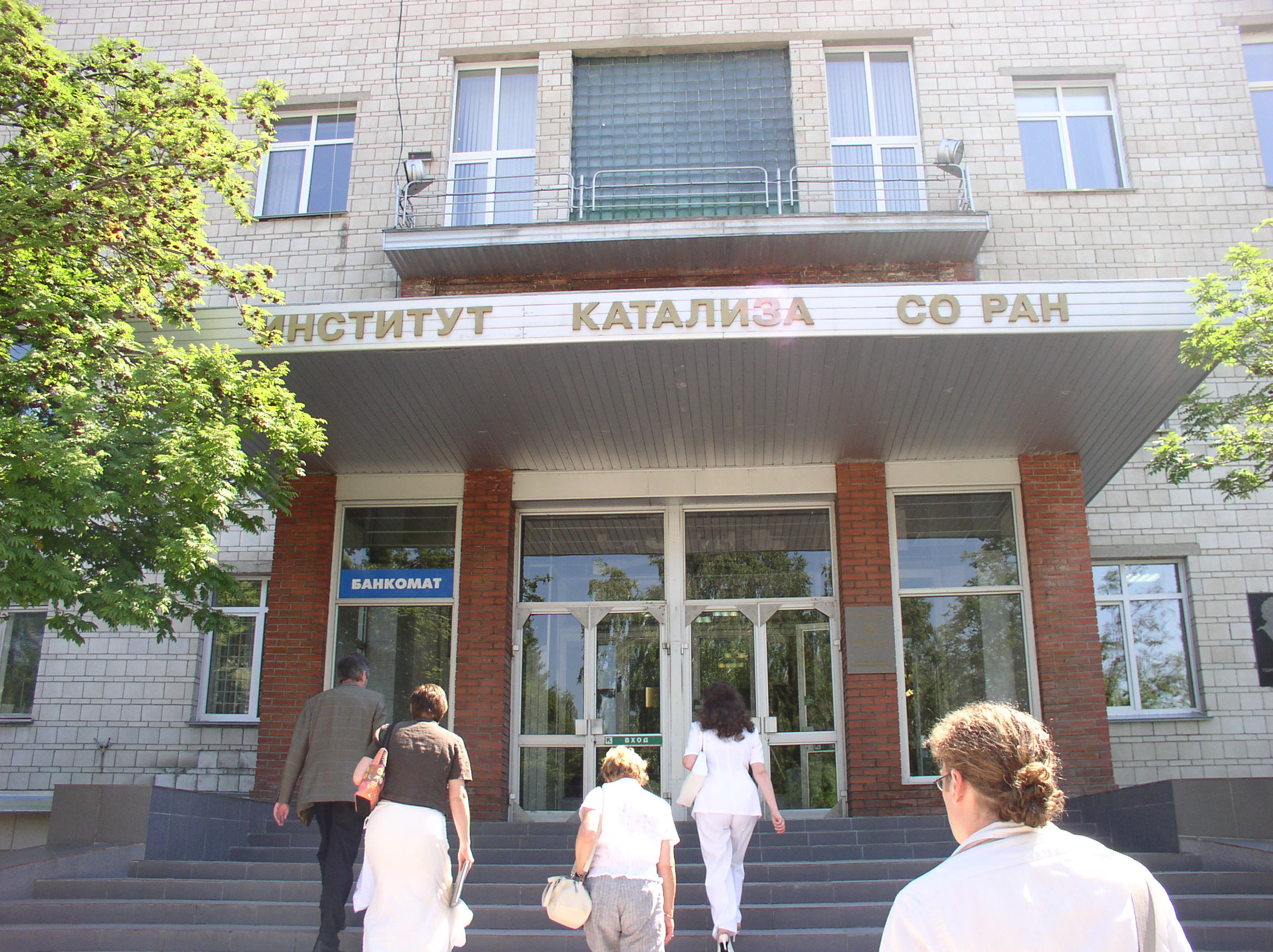 Boreskov Institute of Catalysis in Akademgorodok